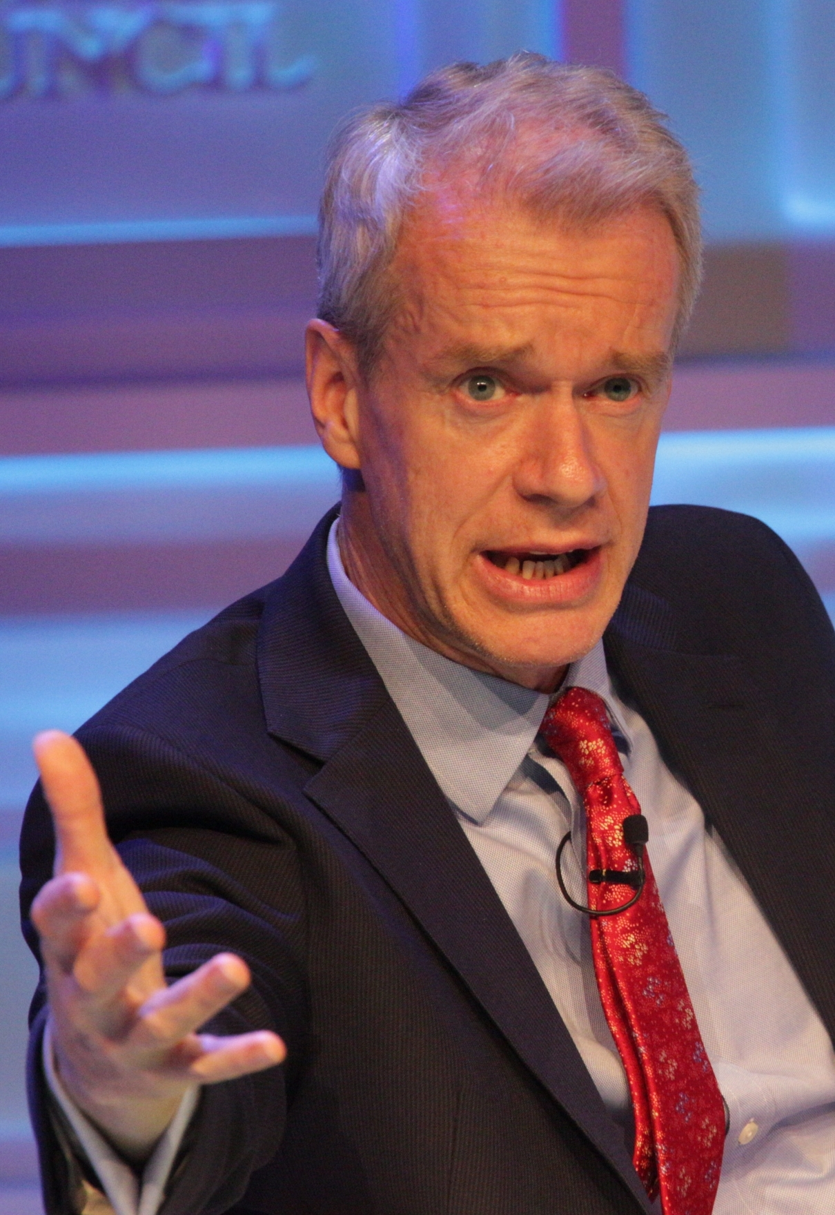 WTTC Global Summit 2015 World Travel & Tourism Council Flickr images